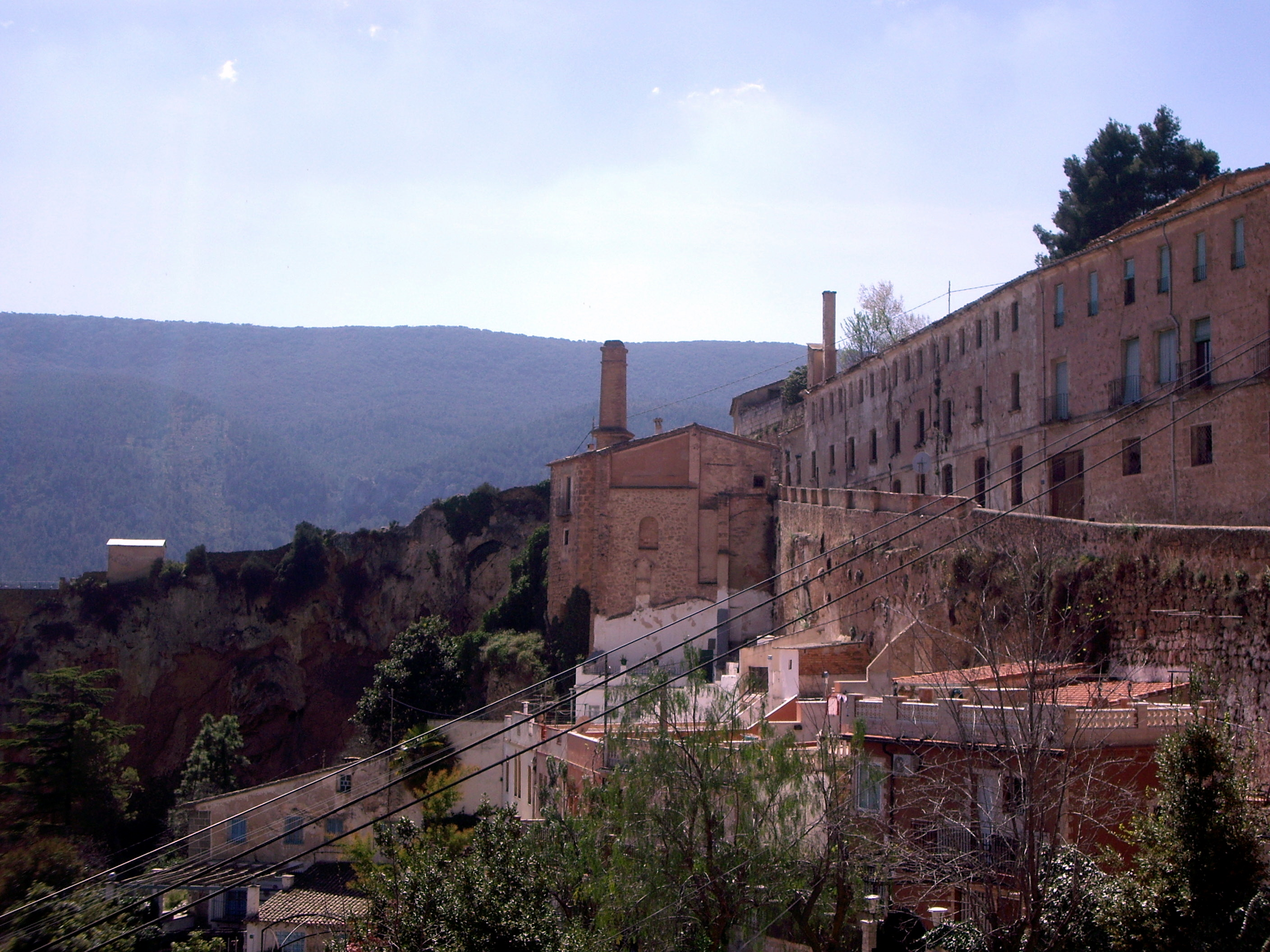 Factories of the nineteenth century. Cases del Salt (Alcoi)